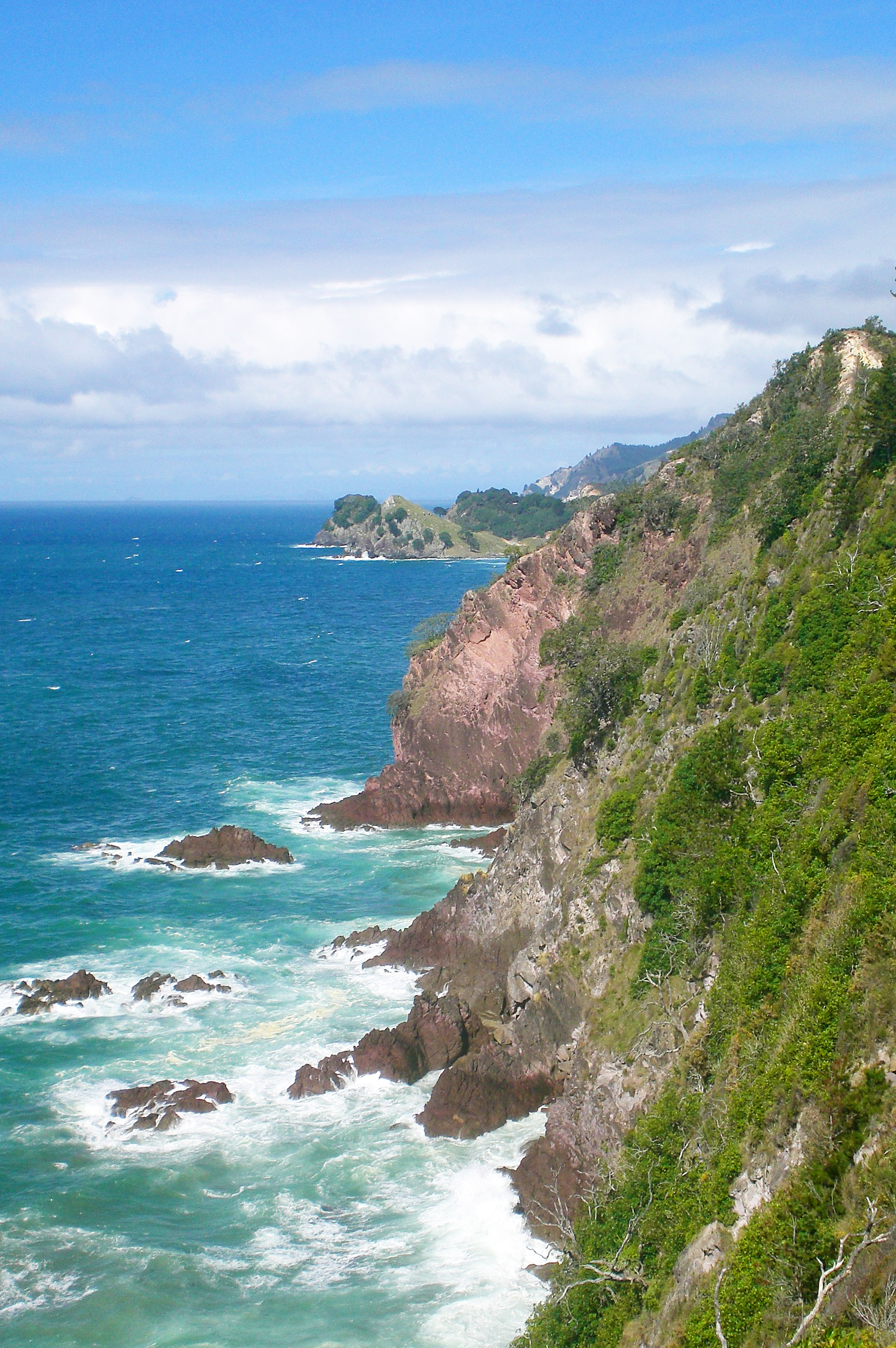 Whiritoa